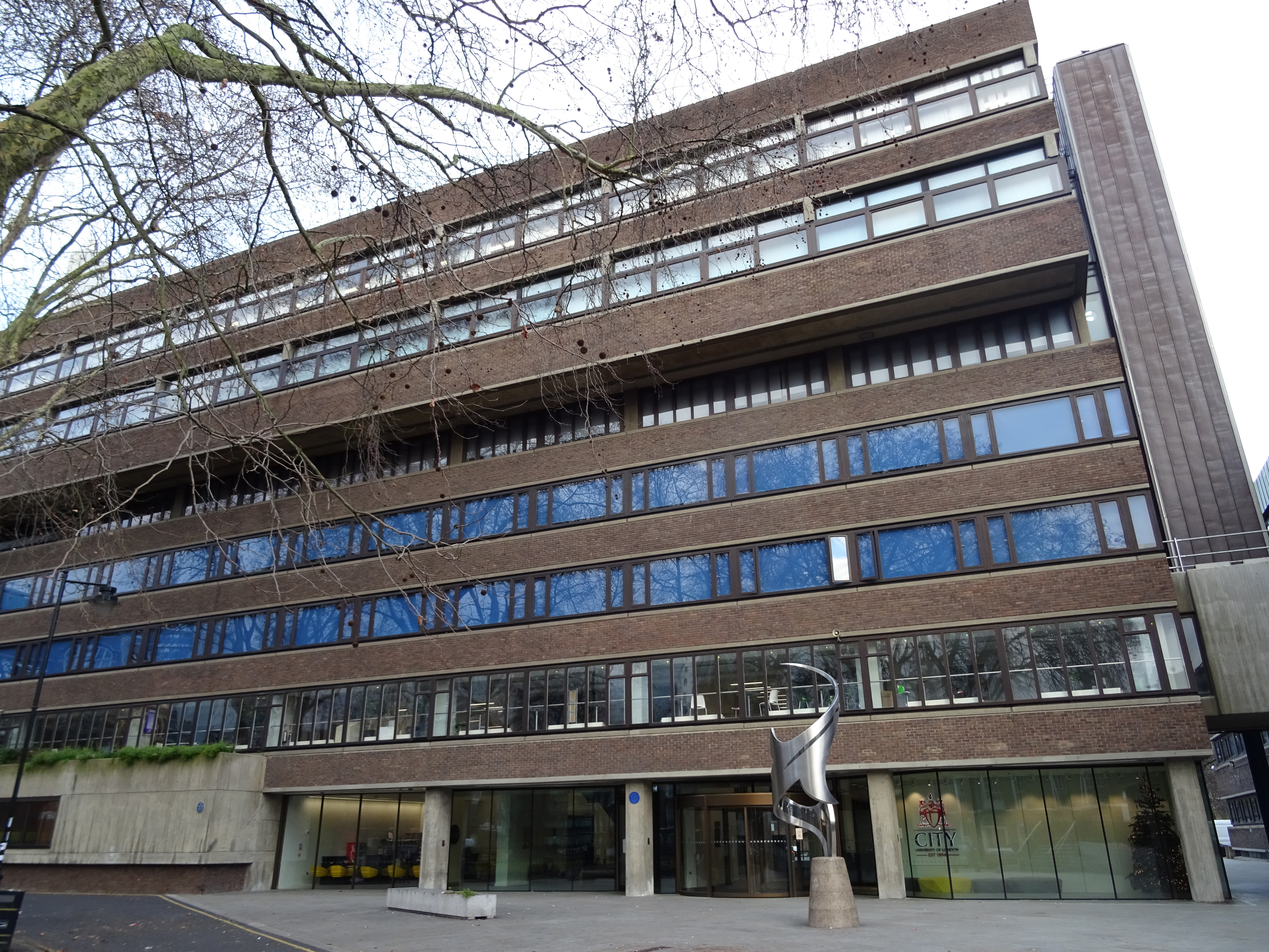 "Sir Henry Bessemer FRS Engineer Inventor Born 1813 Died 1898 Lived in a house previously on this site from 1833. Inventor of the steel production process that contributed to the industrial revolution.